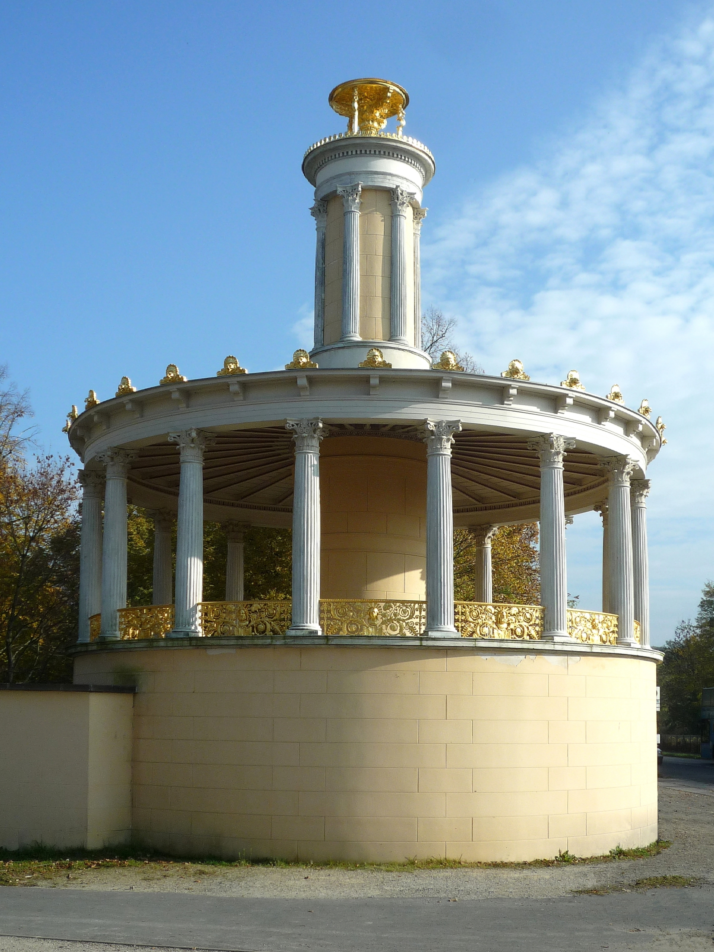 "The Grosse Neugierde" (Great Curiosity), a pavilion in the pleasureground Klein-Glienicke in Berlin (Germany), close to the Glienicker Brücke to Potsdam. Planned by Karl Friedrich Schinkel and built in 1835.